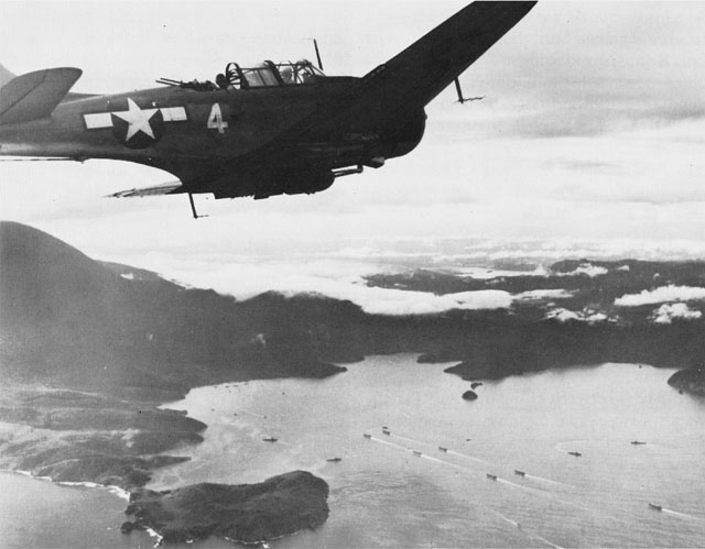 A U.S. Navy Douglas SBD-5 Dauntless covering the landings at Tanahmerah Bay, Hollandia, Papua New Guinea. Landing craft are heading toward Red Beach 2. Despite unfavorable weather, the U.S. Navy Task Force 58 managed to maintain planes on air alert over the Hollandia area.